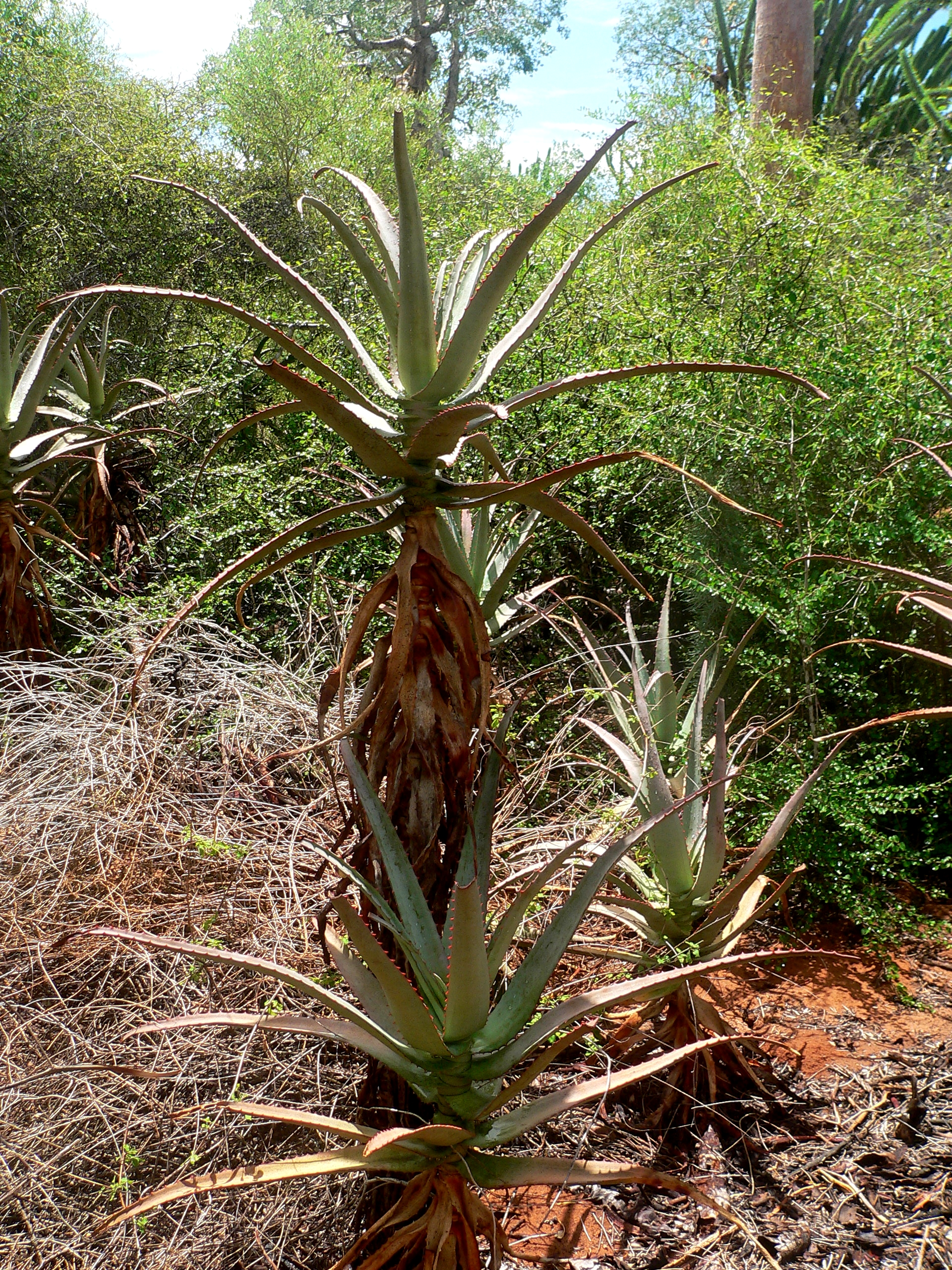 Aloe divaricata (Asphodelaceae), spiny forest at Mangily, western Madagascar